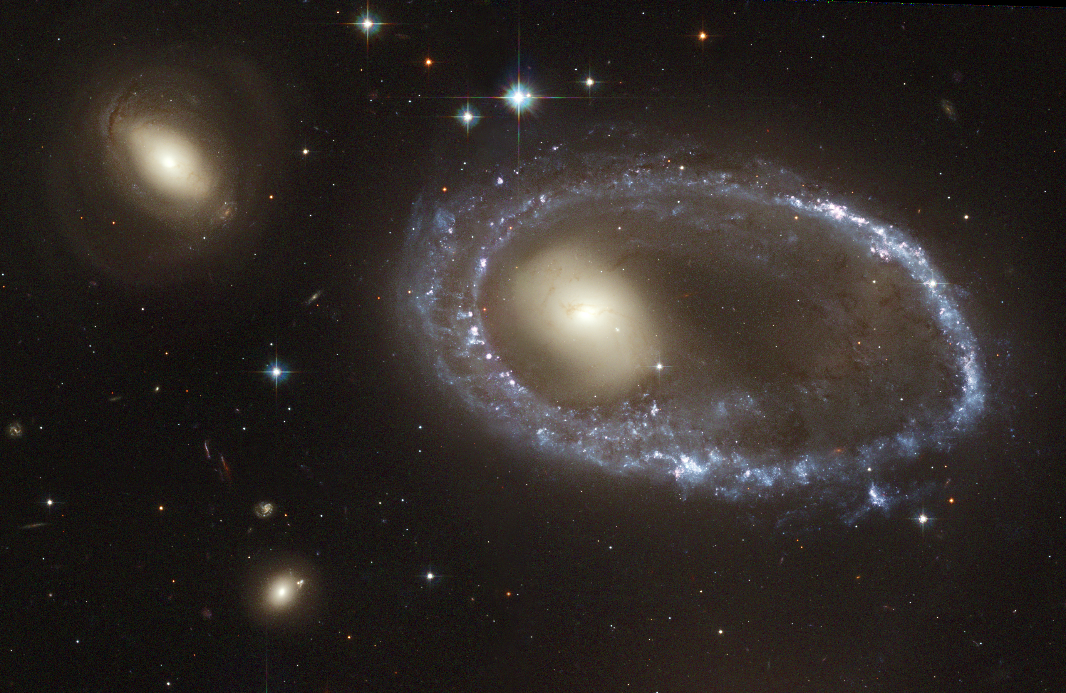 The sparkling blue ring, around the yellowish nucleus of what was once a normal spiral galaxy, is 150,000 light-years in diameter, making it larger than our entire home galaxy, the Milky Way. The galaxy, cataloged as AM 0644-741, is a member of the class of so-called ring galaxies. It lies 300 million light-years away in the direction of the southern constellation Dorado.